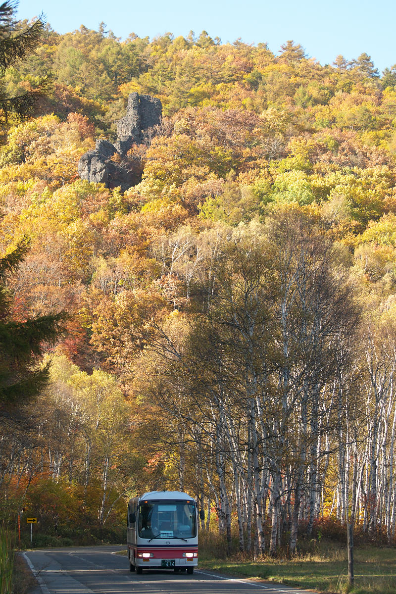 Route 299 at Yachiho-Kogen.